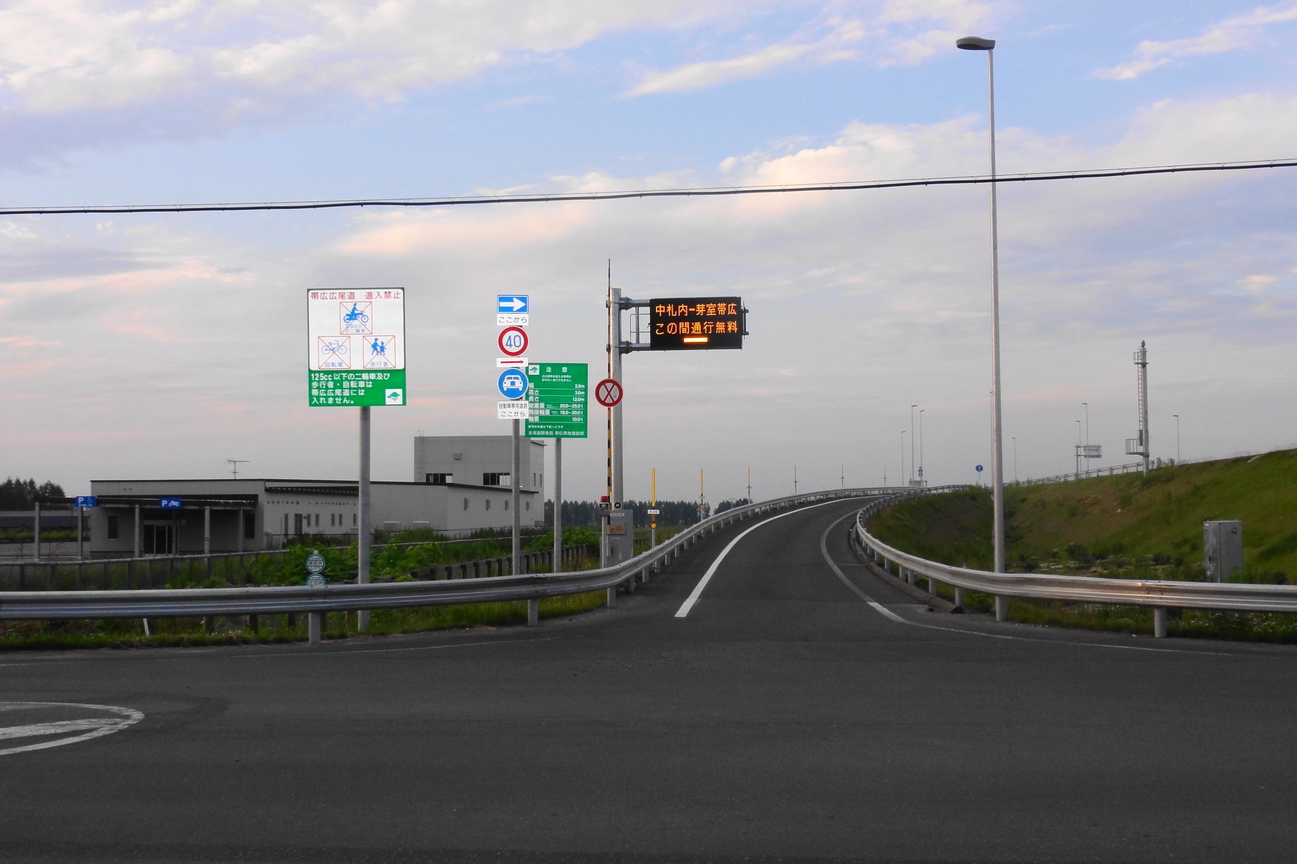 Nakasatsunai_IC,Hokkaido,Japan